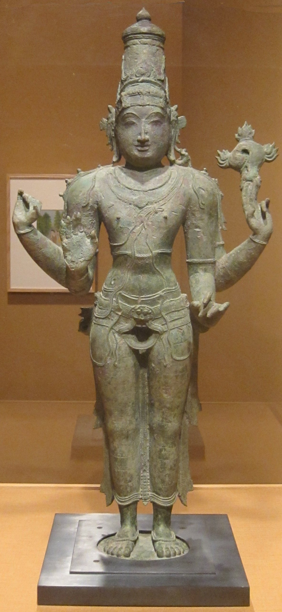 Vishṇu, India, Chola dynasty, 12th-13th century, bronze, Honolulu Museum of Art, accession 10712.1